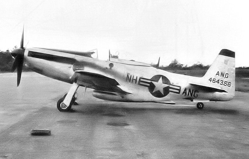 133d Fighter Squadron - North American P-51H-5-NA Mustang 44-64356